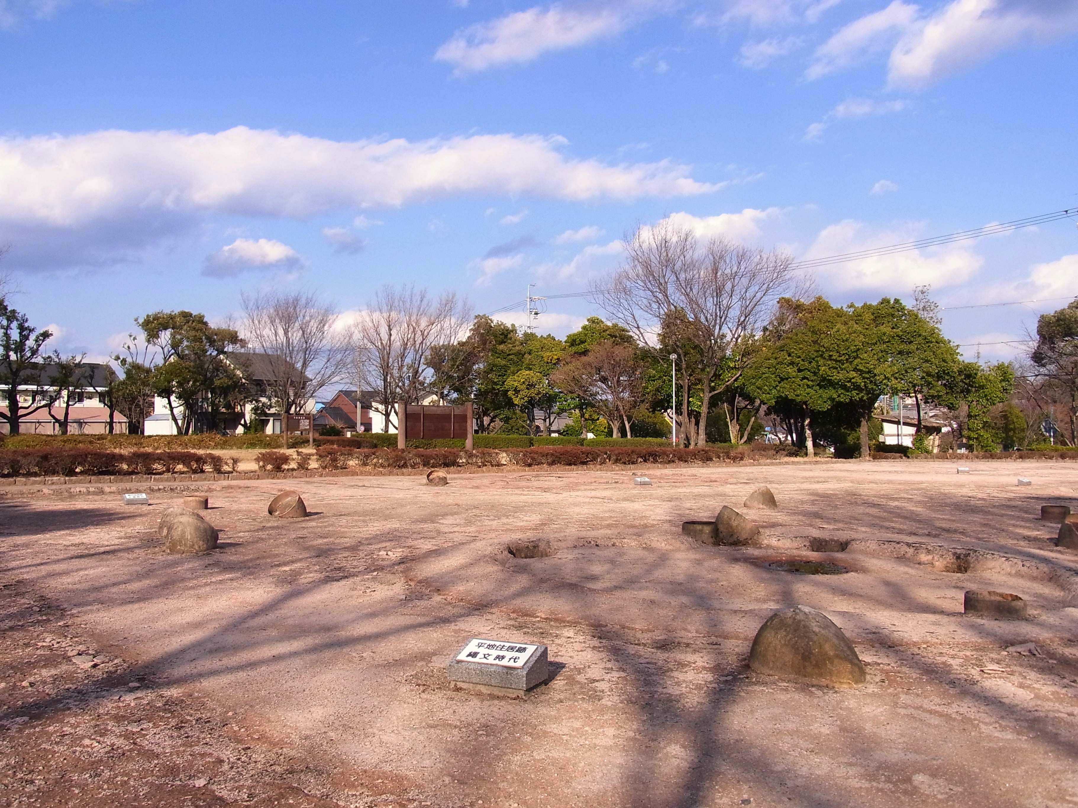 Shingu Ruins (Shingu Iseki) in Okazaki City, Aichi Prefecture, Japan.